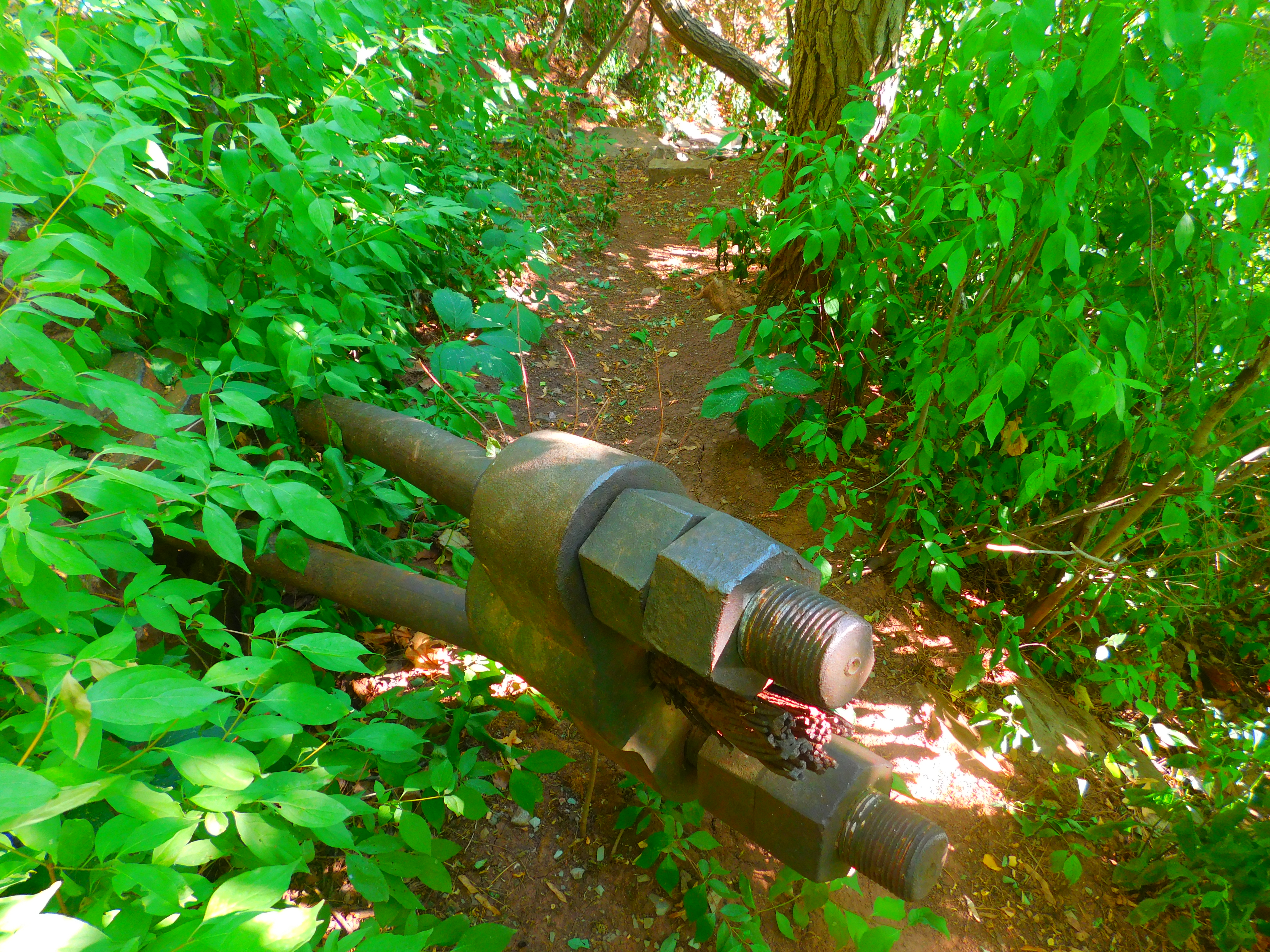 A former Lewiston–Queenston Bridge suspension cable and pulley in Lewiston, New York.